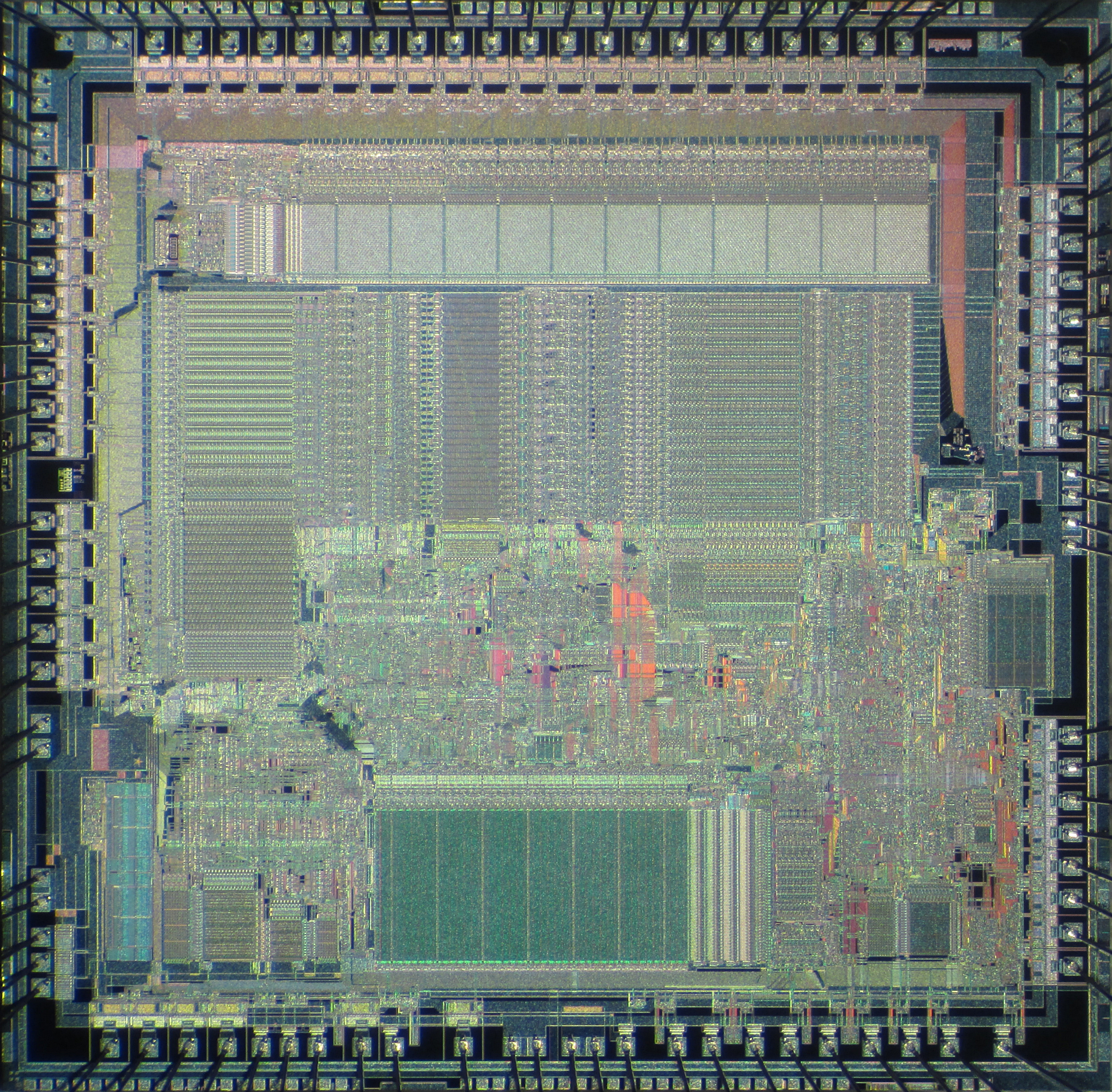 Die shot of DEC CVAX+ 78034-GA microprocessor with chip number DC580C and part number 21-24674-17 on heatsink.